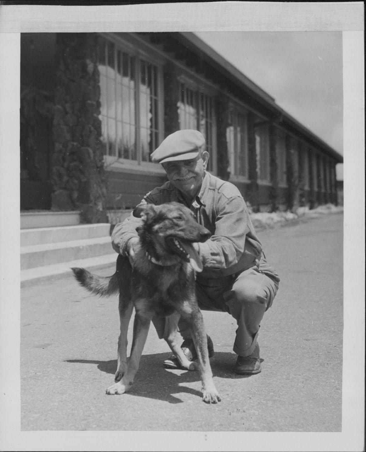 George Lycurgus (Greek: Γεώργιος Λυκοῦργος) (1858–1960) was a Greek American businessman who played an influential role in the early tourist industry of Hawaii.